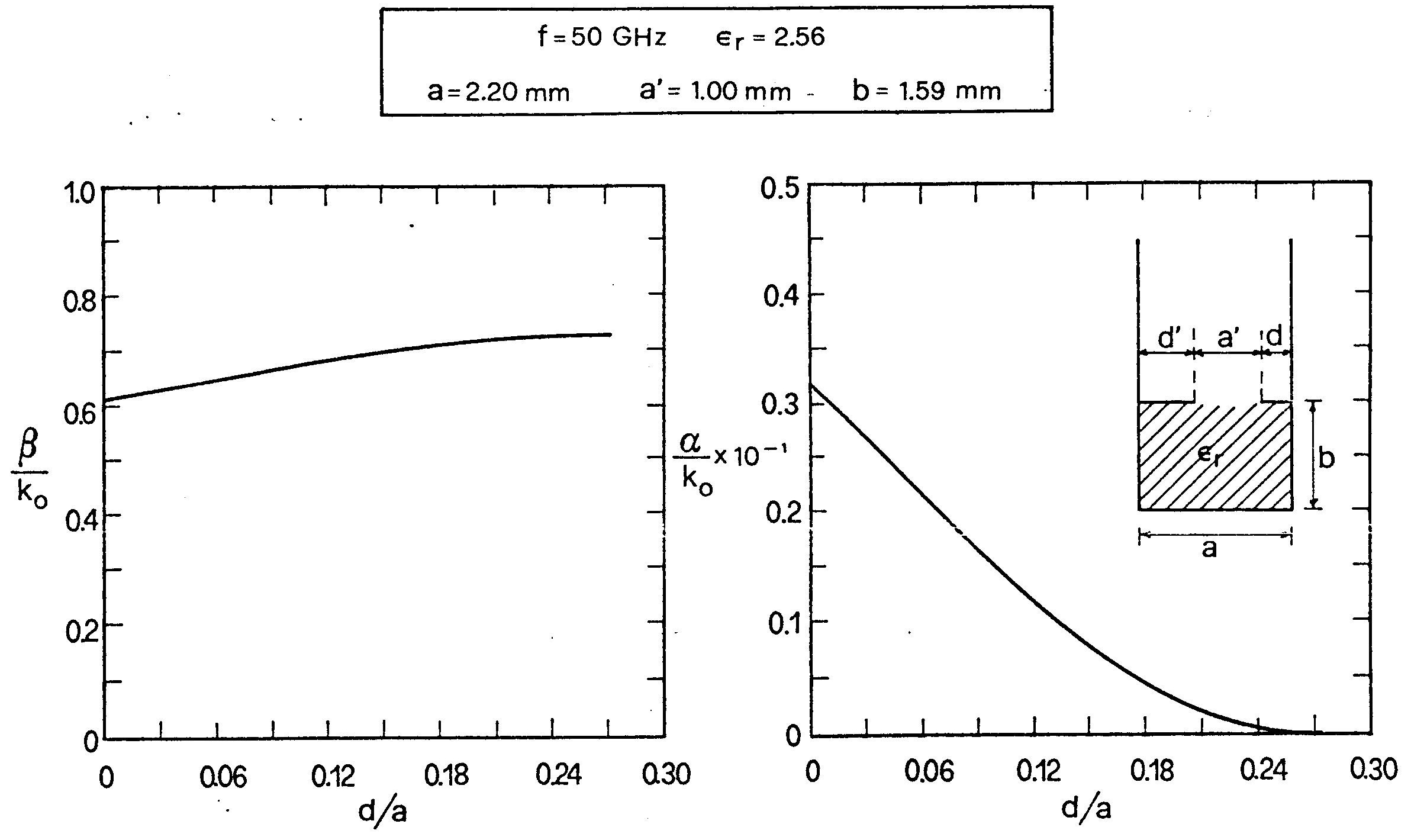 effect of asymmetry